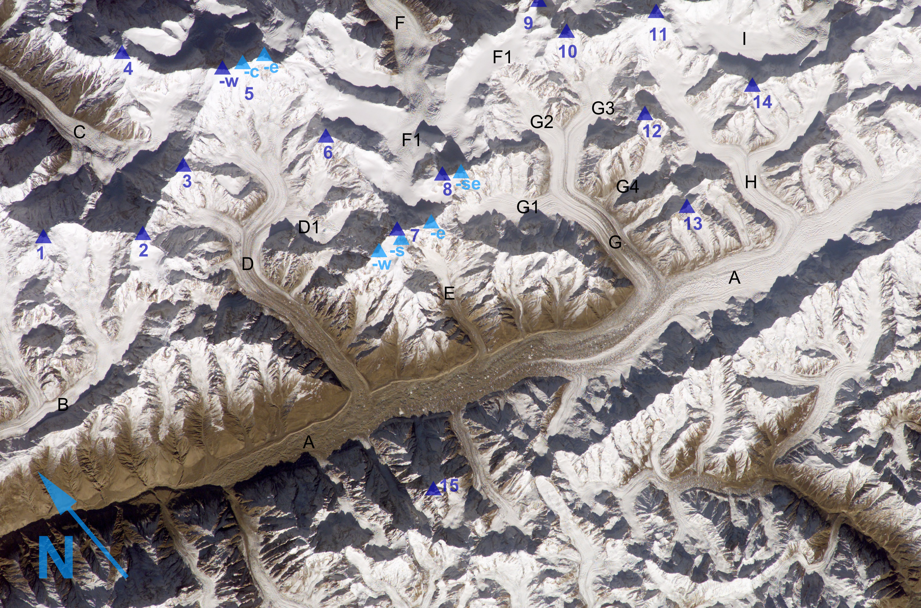 Hispar glacier and Hispar Muztagh, see legend below (An adjacent picture to the east is here)